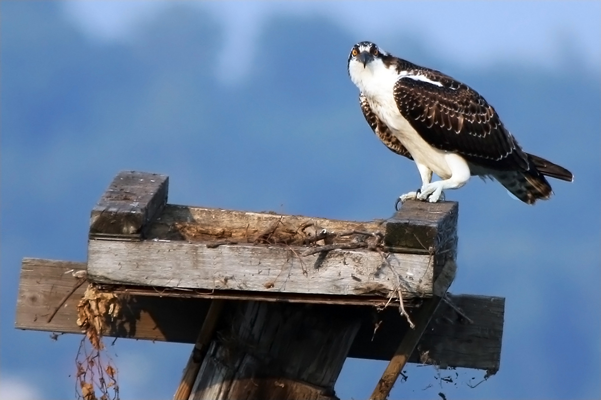 Juvenile Osprey at Belle Haven Marina, Alexandria, Virginia, USA